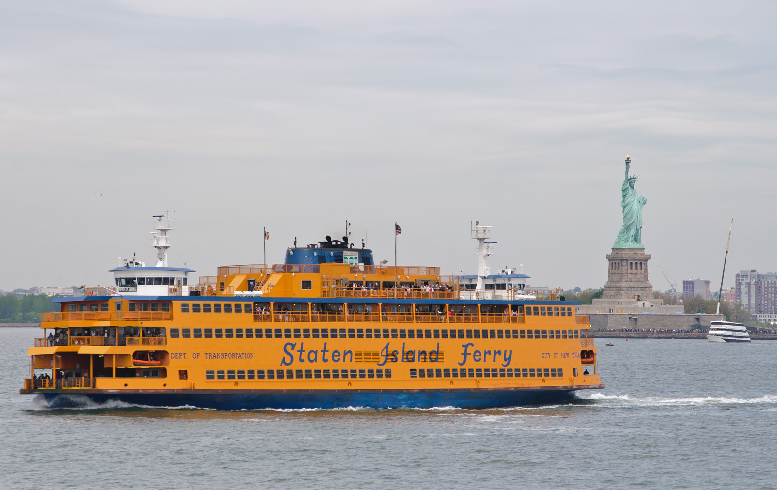 The Staten Island Ferry, which takes 25 minutes one way to travel between Battery Park in Manhattan and St. George on Staten Island, is probably the greatest bargain in New York City, as it offers some of the best views of the harbor and the world-famous skyline, for free. Each of the distinctive double-ended ferries carries a name. This particular one, heading for Staten Island, is named Spirit of America. I am heading for Manhattan on the John F. Kennedy. In the background, there are a few cranes around the Statue of Liberty; due to security upgrades and renovations, the Statue has been closed since October 2011, and will remain closed through summer 2012.